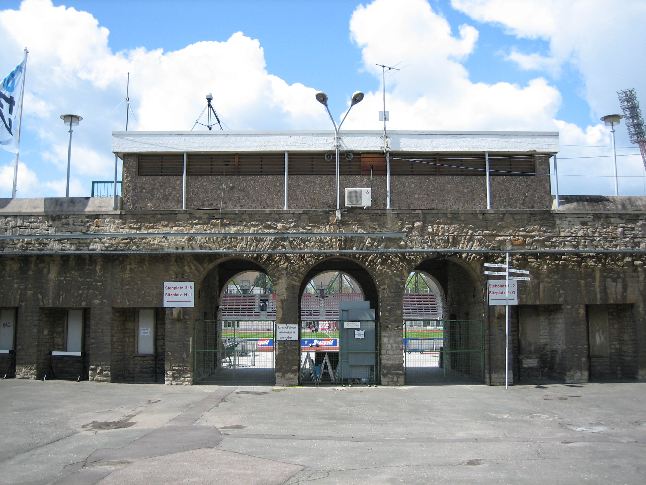 This picture shows a stone gate of the Steigerwaldstadion, a football ground in Erfurt, Germany.